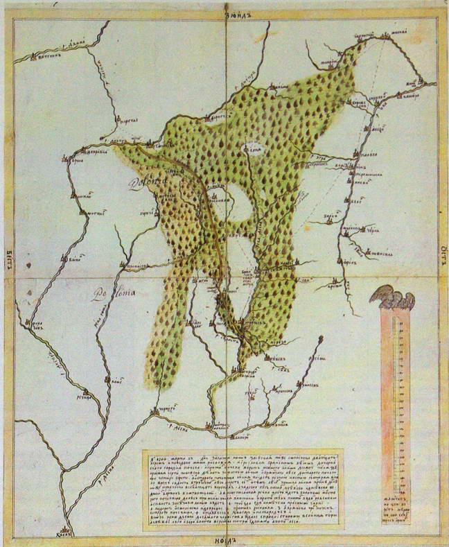 Map of forest defense line from Smolensk to Chernigov, established in 1706 (First half of 18th century). Location: Dept. of Manuscripts, Library of Academy of Sciences, Petersburg. Class 35, file 658. (No 571 from: Collection of the XVIII-th century maps of Dept. of manuscripts, Library of Academy of Sciences, Petersburg, was described and catalogued in Gnucheva V. F. Geograficheskii departament Akademii Nauk XVIII v. [Geographic Department of Academy of Sciences in XVIII century], Moscow - Leningrad, 1946.)